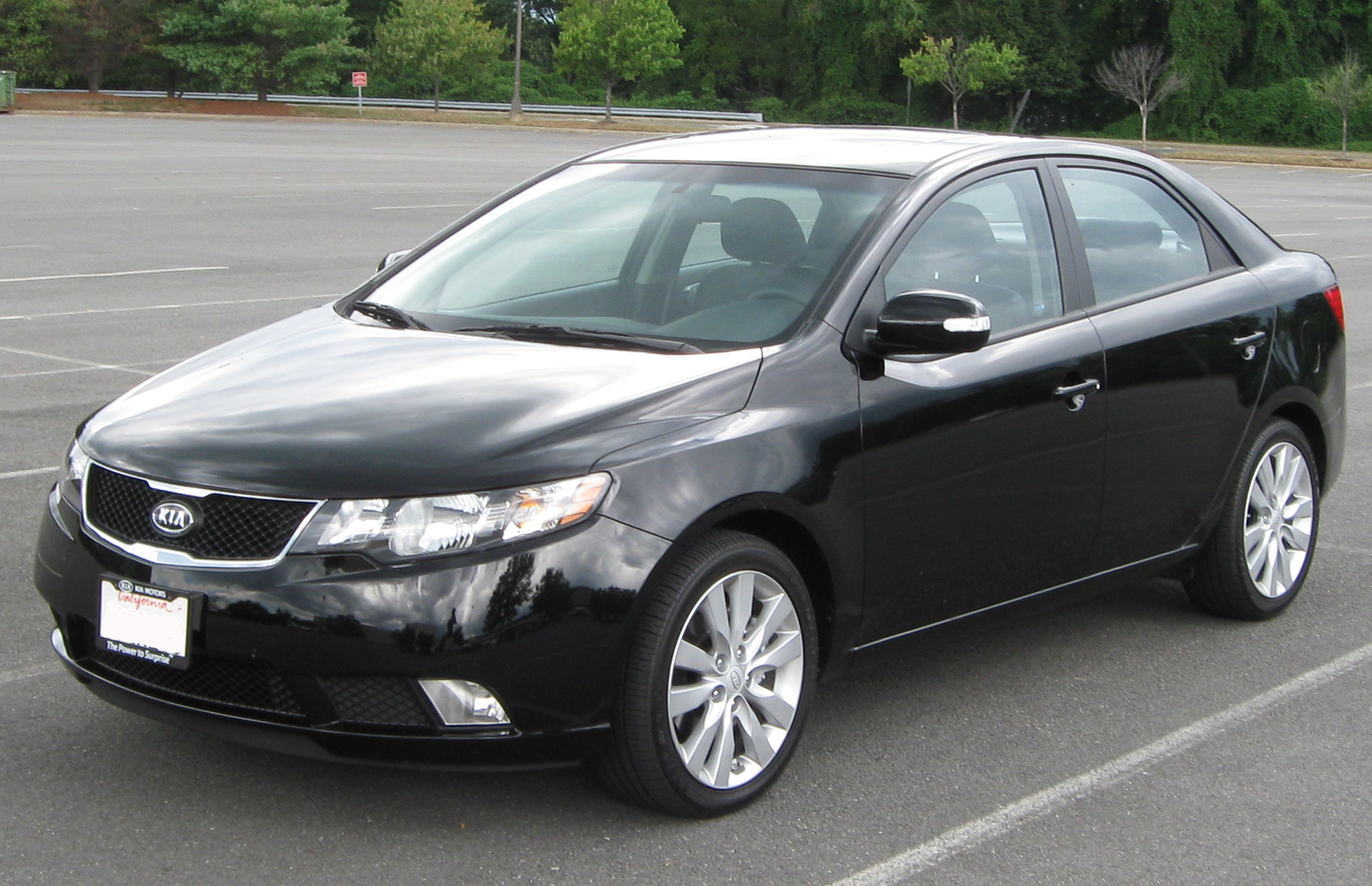 2010 Kia Forte SX photographed in Wheaton, Maryland, USA.